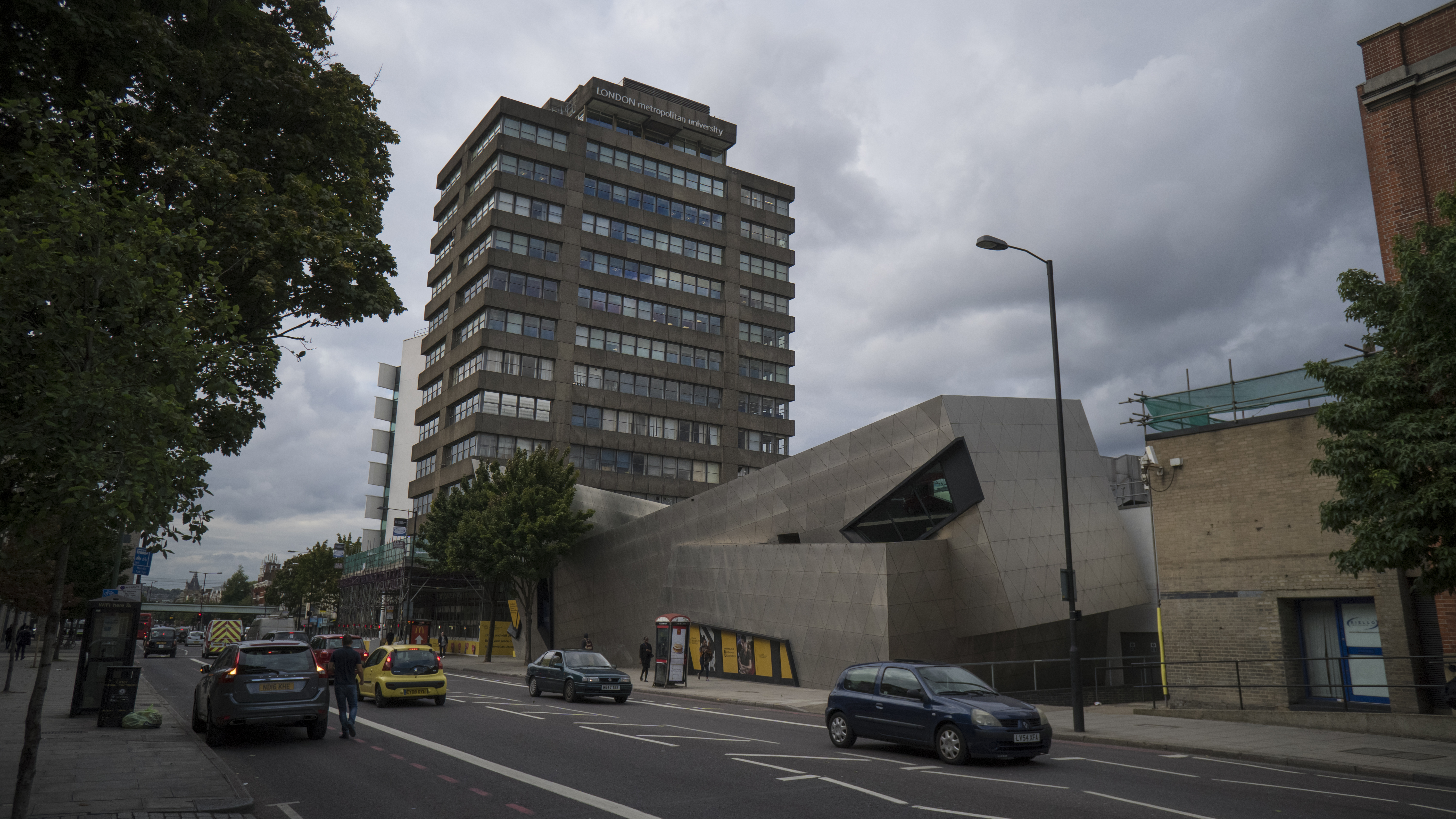 London Metropolitan University, Holloway Road